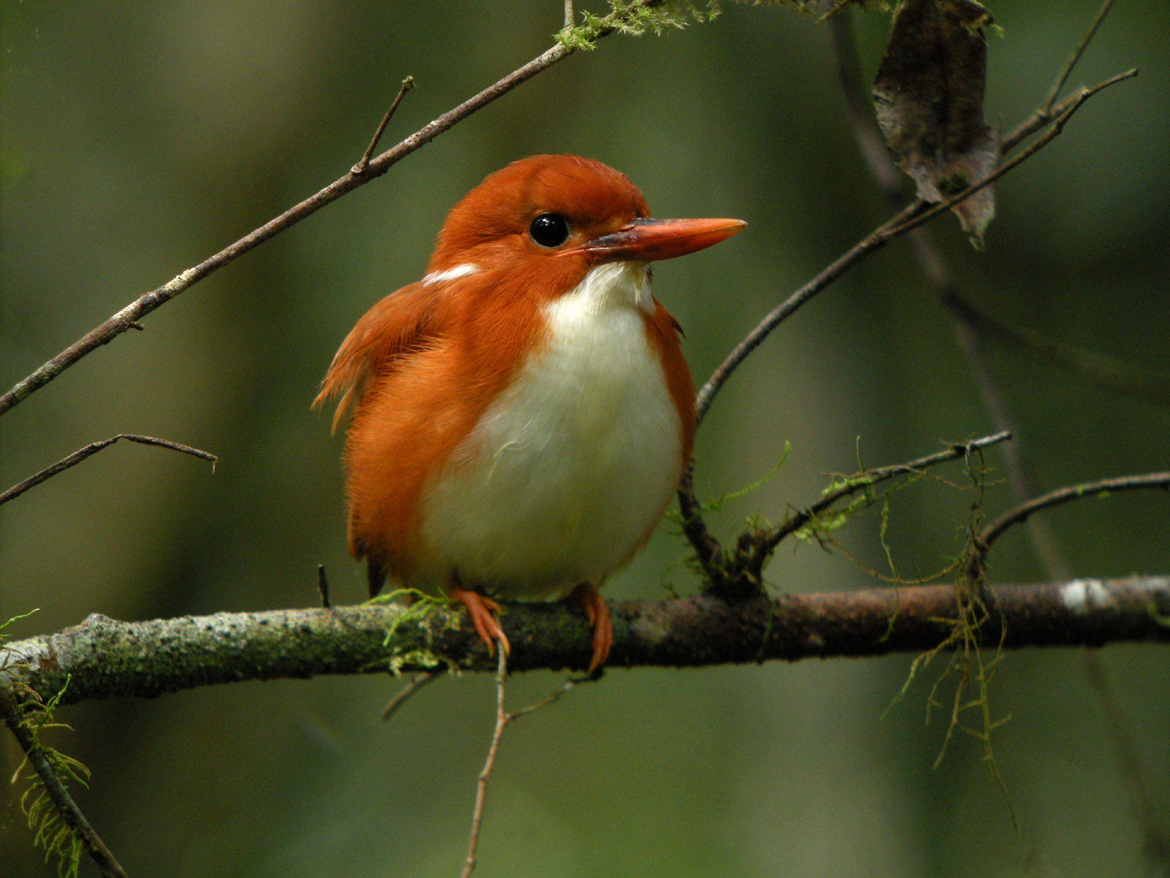 A Madagascar Pygmy Kingfisher at Mantadia National Park, Madagascar.